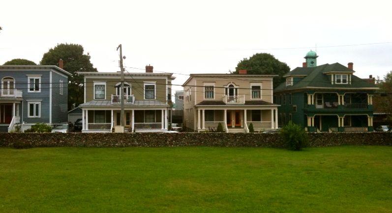 Victorian-era houses on Clarendon Street in the North End neighbourhood of Saint John, New Brunswick.